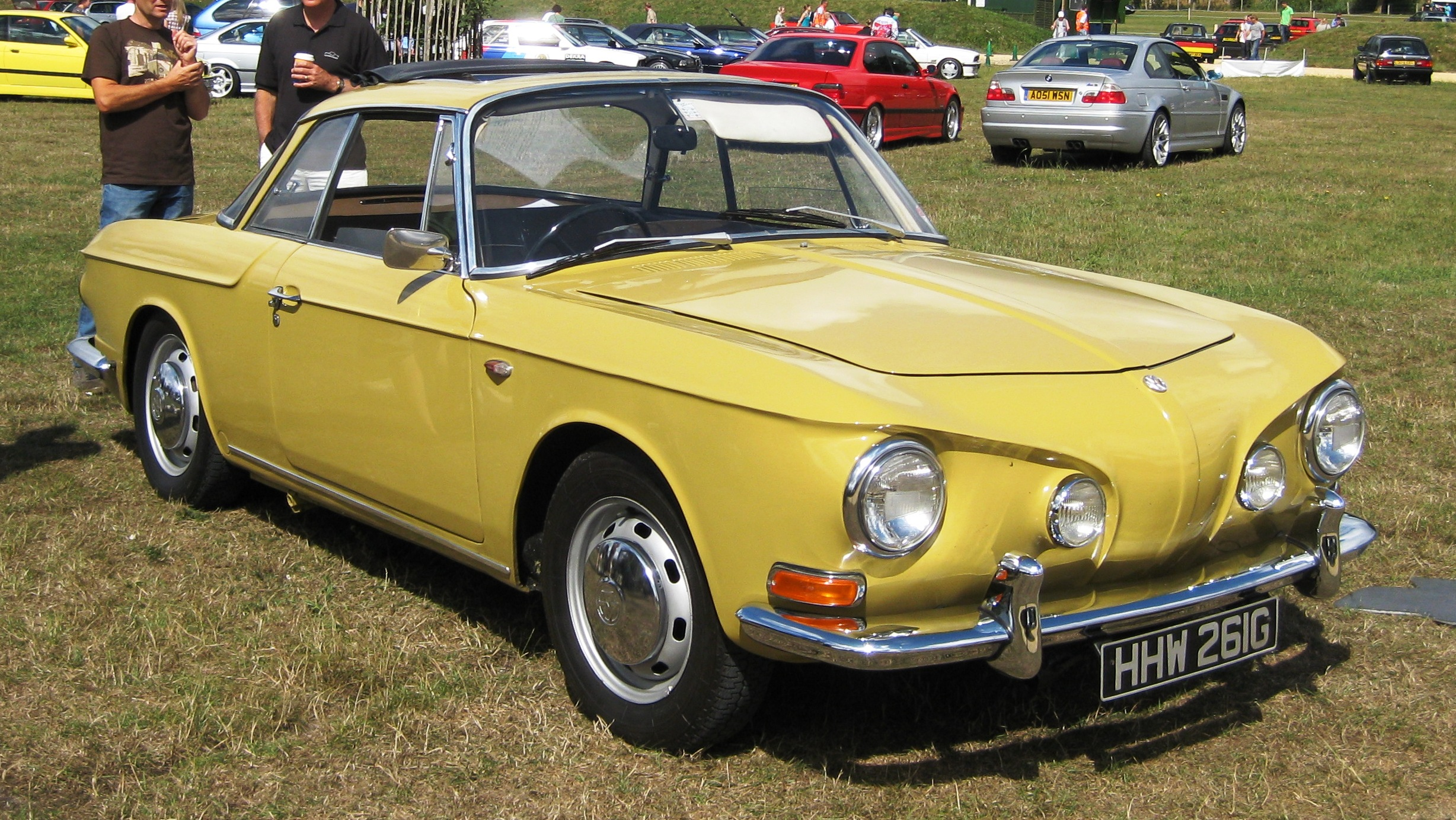 Volkswagen Karmann Ghia 1600 (Typ 34) at Beaulieu German Autofest